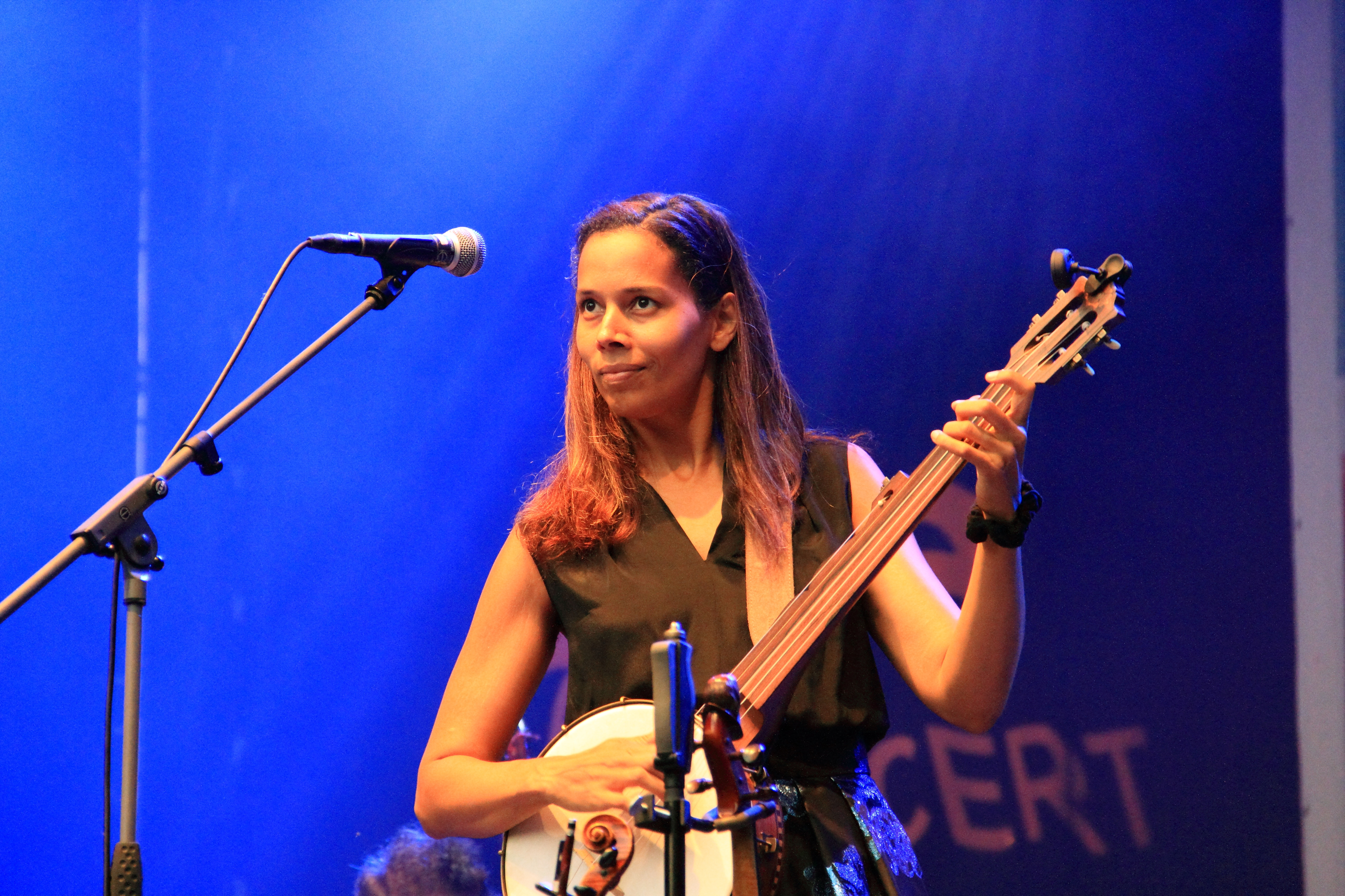 Rhiannon Giddens from North Carolina with band at TFF Rudolstadt 2015.